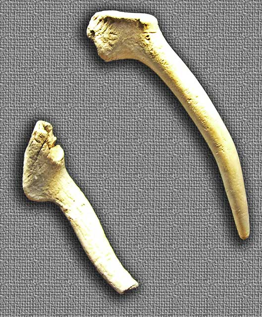 Several antler pieces finding in the archaeological site of «Los Cercados», en Mucientes (Valladolid, España). Museo Arqeuológico de Valladolid.